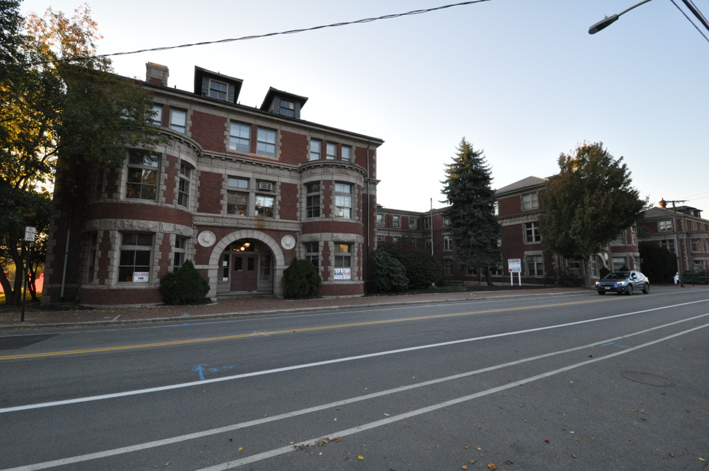 The former Maine Central Railroad General Office Building on St. John Street in Portland, Maine.